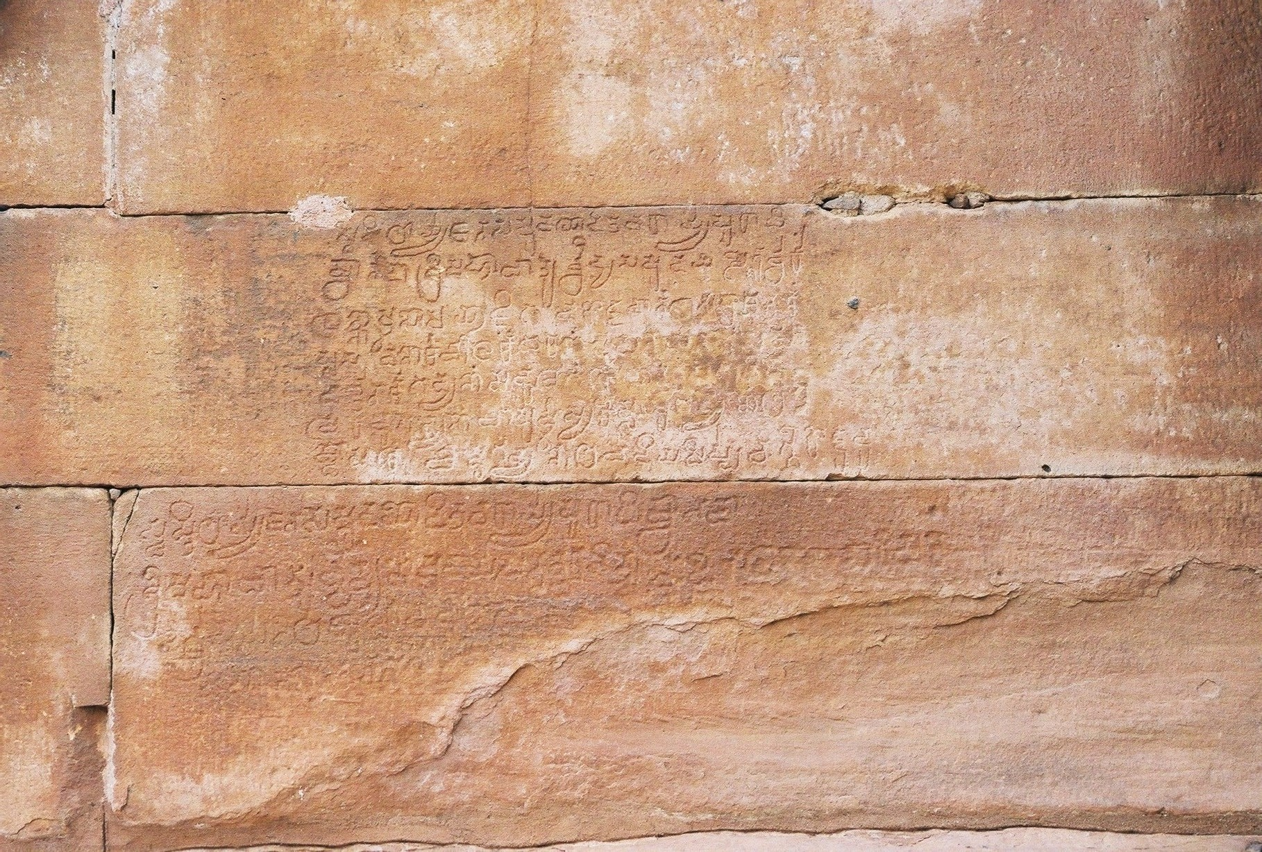 This photograph was taken by me at the Lad Khan temple (originally called Suryanarayana temple, built around 620 A.D) at Aihole, Karnataka state, India. The 8th century old-Kannada language inscription records a financial grant by a certain man to the "five hundred" (ainuru or ainurruvar), a great body of Chaturvedis (Brahmins) of Aihole (Aryapura). Sources:1)The Chalukyan Architecture of Kanarese Districts, p.32, 1926, 1996, Archaeological Survey of India, New Delhi, oclc: 37526233; 2)Pâli, Sanskṛit and Old Canarese inscriptions from the Bombay Presidency and parts of the Madras Presidency and Maisûr, John Faithful Fleet, James Burgess, Archæological Survey of Western India, Chapter:Analysis of inscriptions, pg. 16, #78, 1878; 3)Nagapattinam to Suvarnadwip: Reflections on the Chola Naval Expeditions to Southeast Asia by Hermann Kulke, K. Kesavapany, Vijay Sakhuja,Institute of Southeast Asian Studies, 2010, p.142, p.152, isbn: 978-981-230-936-5